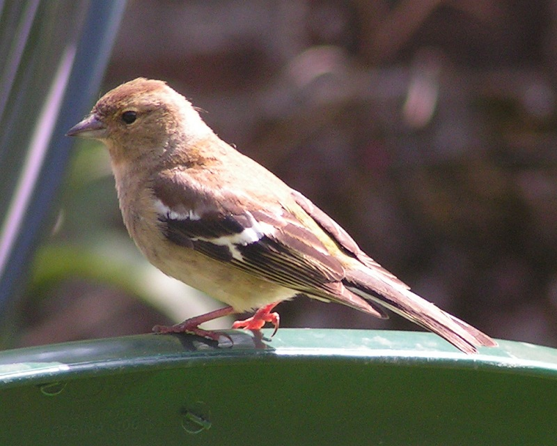 A female Chaffinch Fringilla coelebs, North Devon, 14 May 2004.